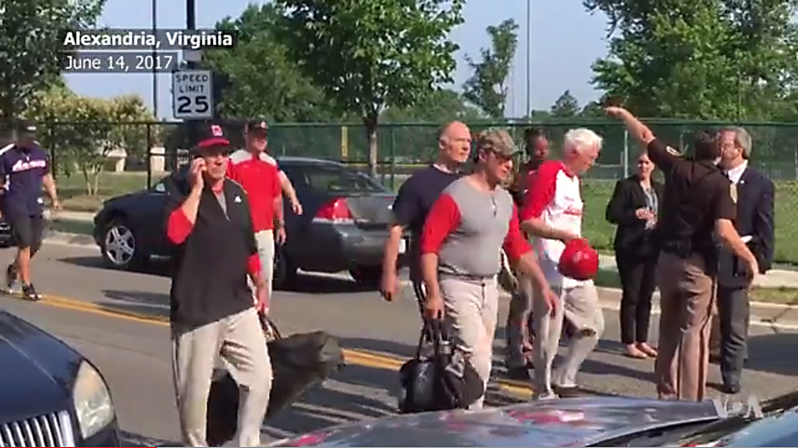 Scene of the aftermath of the shooting in on June 14, 2017. Sharpened image and converted to JPEG.